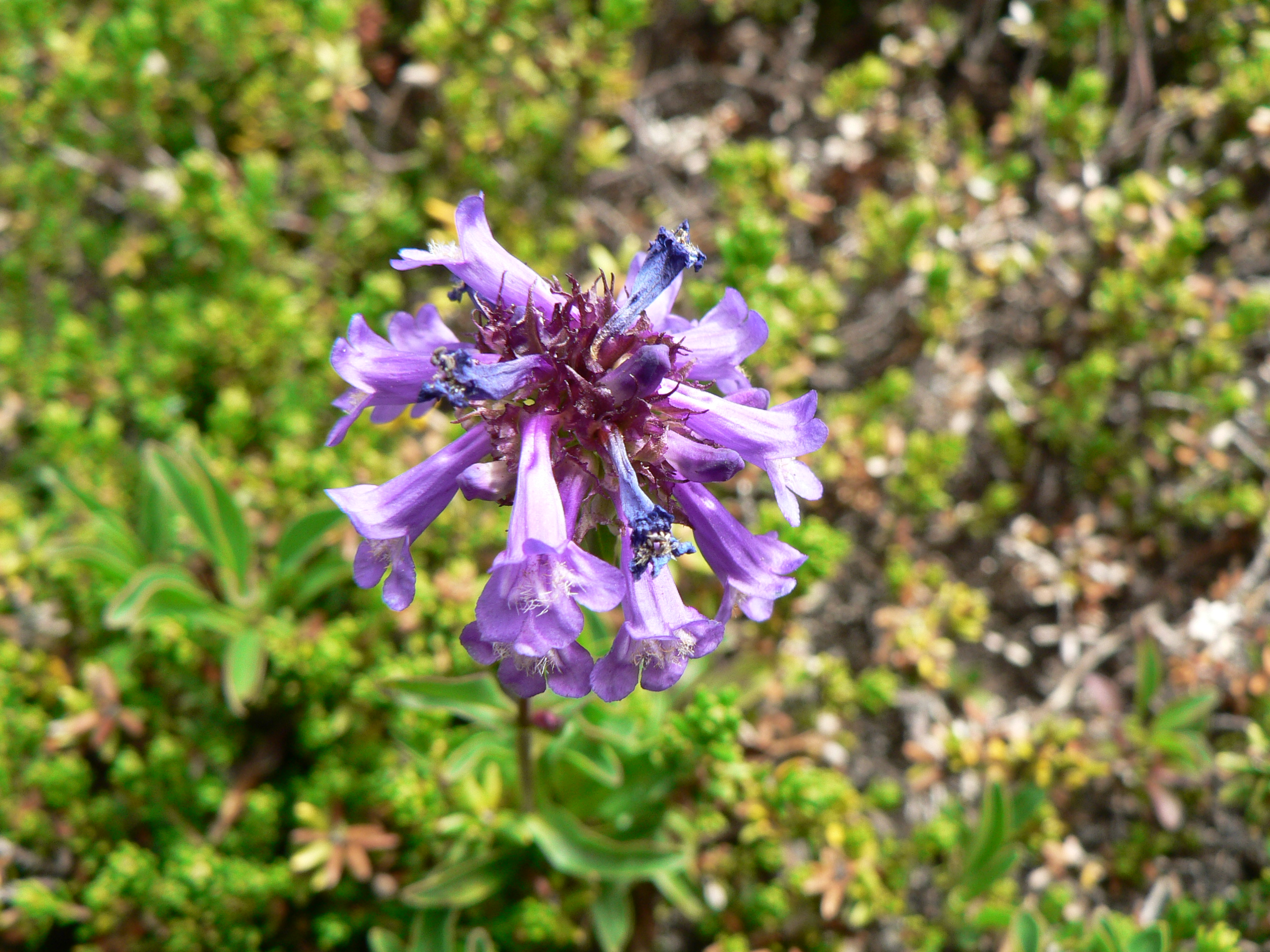 Small-flowered Penstemon, Littleflower Penstemon